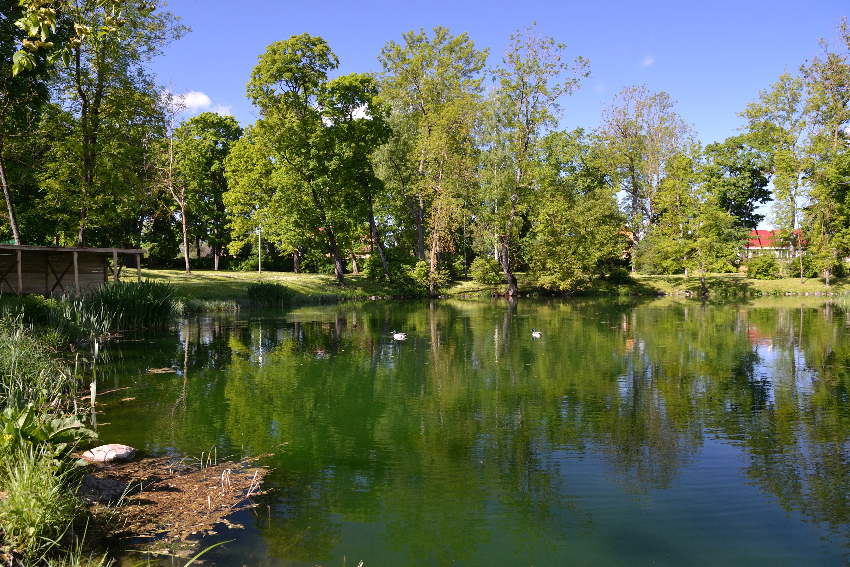 Rakvere manor park